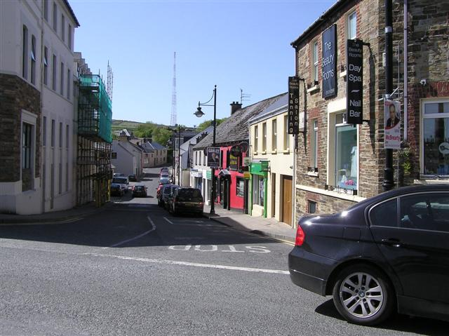 Main Street, Lifford Looking WNW